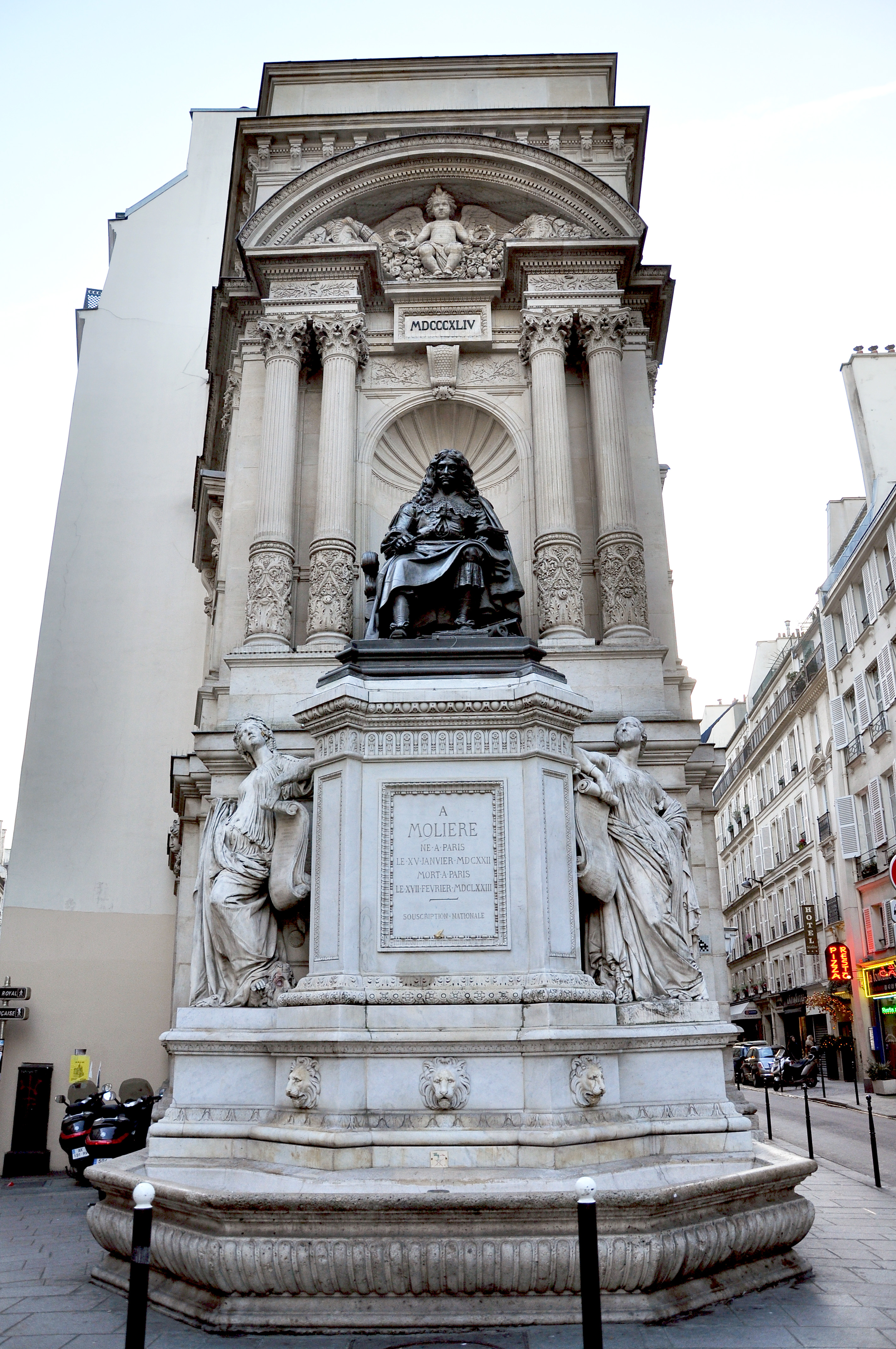 Fountain Molière 1st arrd. in Paris. Built in 1844 - the bronze statue of Molière is by Bernard-Gabriel Seurre, and the two stone figures of Light Comedy and Serious Comedy are by James Pradier.